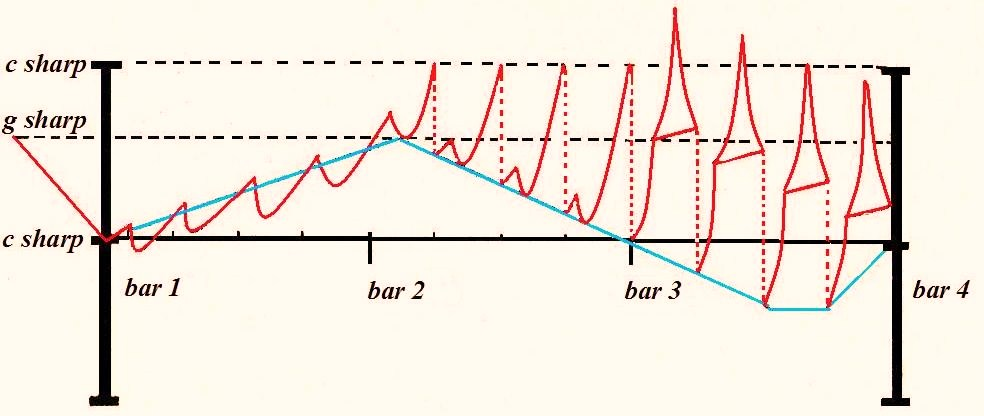 Chopin Etude Op.10, No. 4: Graph of semiquaver motif, bars 1 - 4, after Hugo Leichtentritt